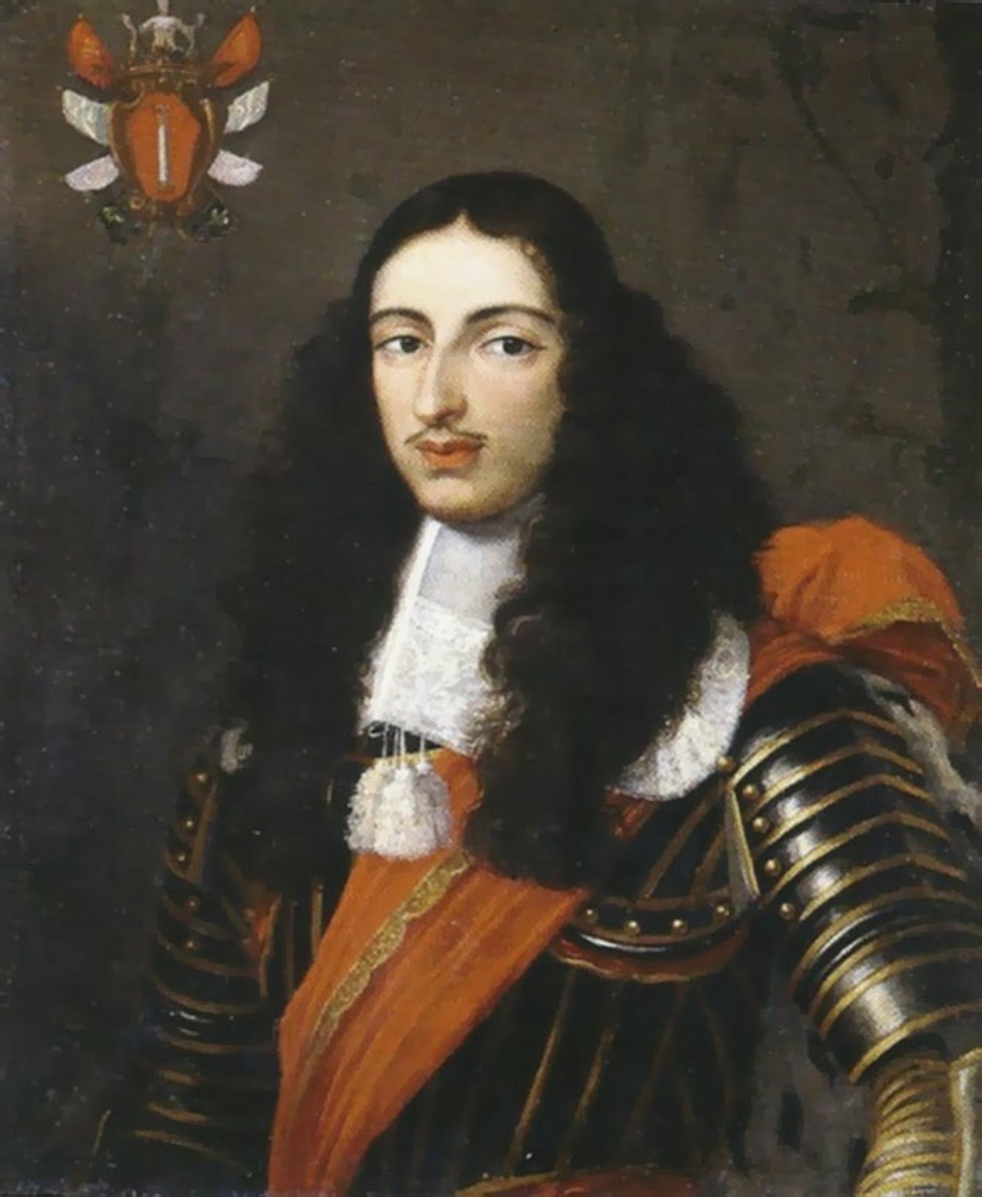 Portrait in armour of prince Philip II Colonna